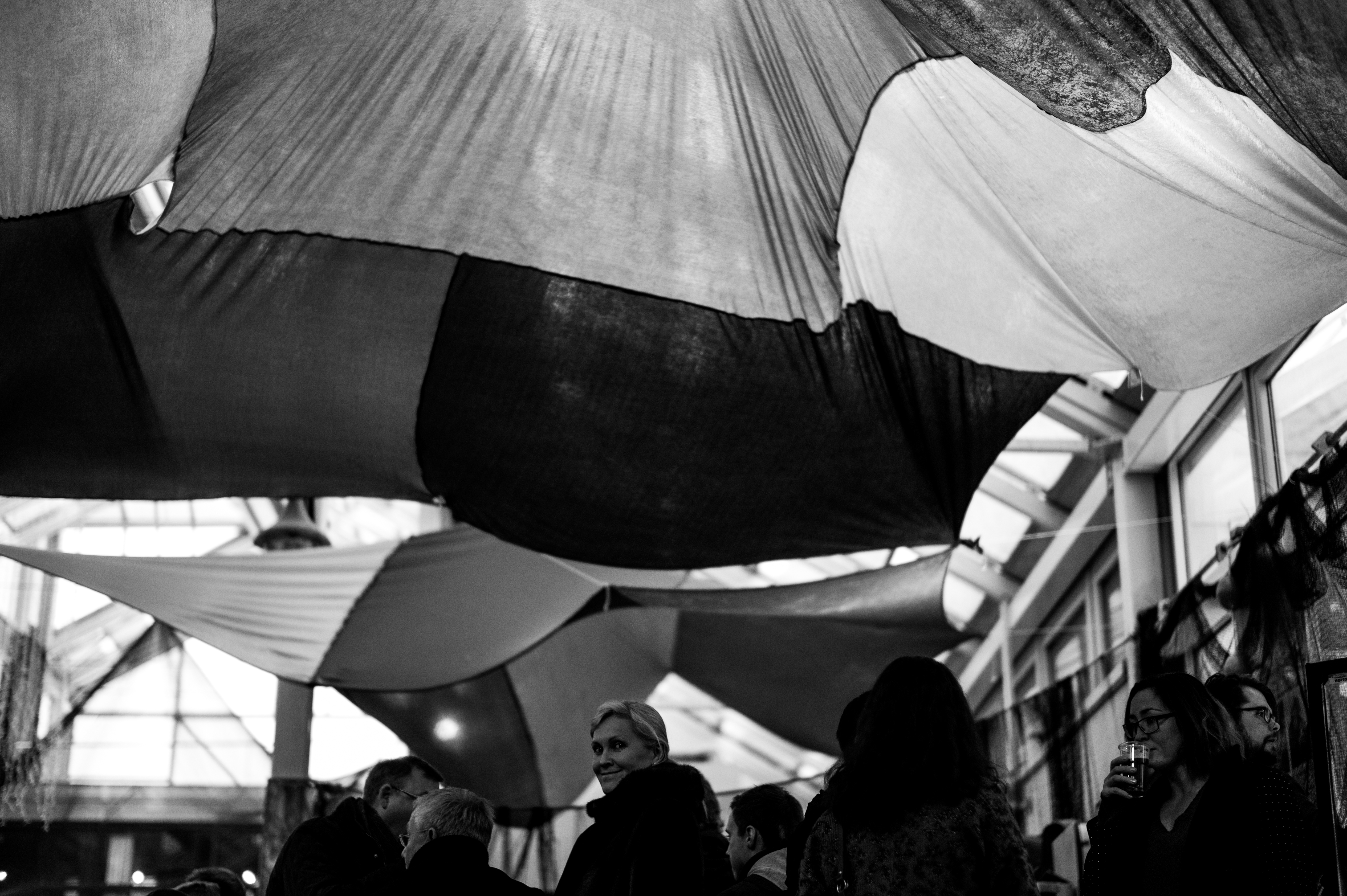 Det var yrende folkeliv i Glasshuset under hele festivalen.